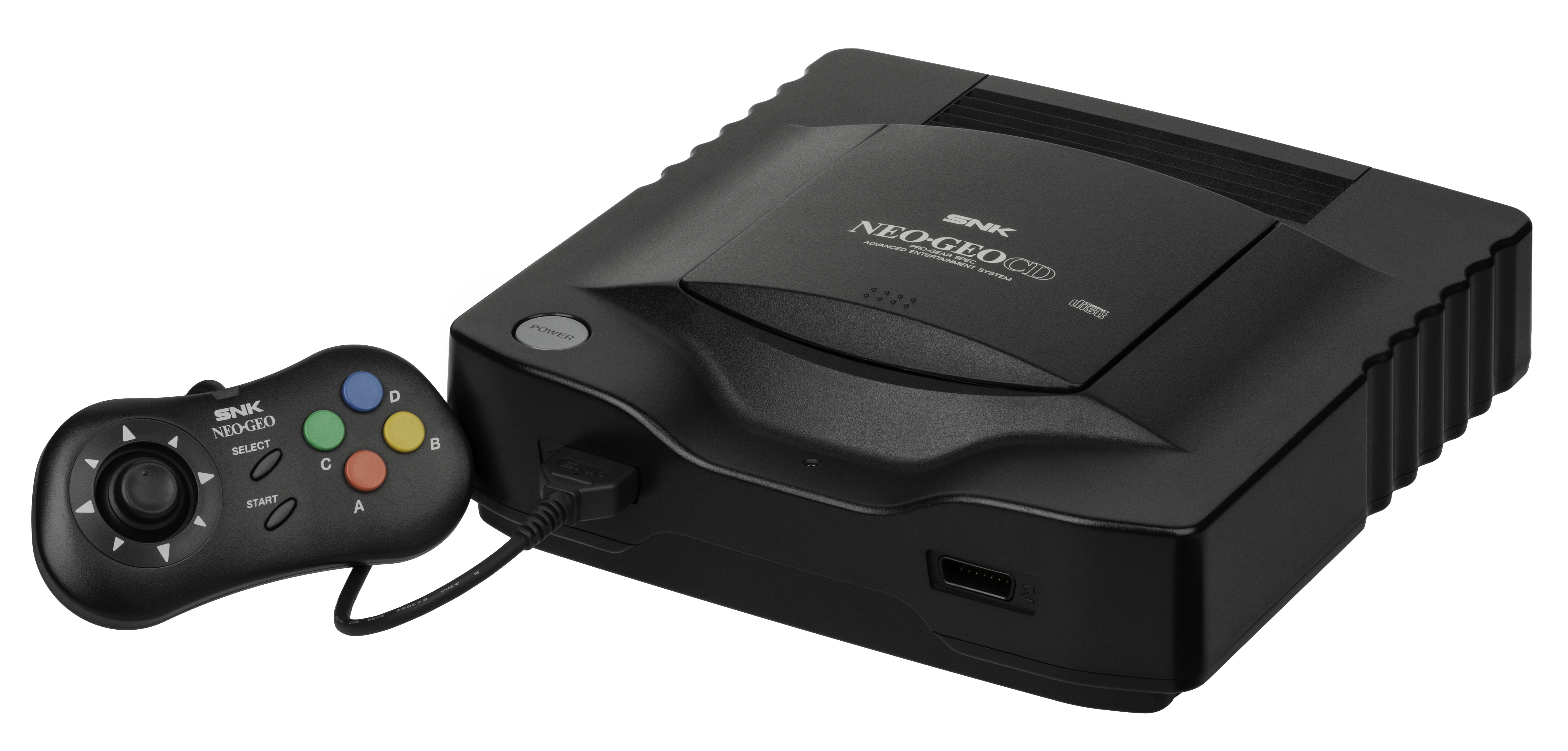 The Neo Geo CD, a video game console released by SNK in Japan in 1994. This is the top loader model, the most common version and the only one that saw a worldwide release. The Neo Geo CD was a conversion of the original Neo Geo AES hardware into a system with cheaper, more accessible media. The original AES used large cartridges that cost hundreds of dollars each, whereas this model used common CDs that cost pennies to produce. The system also included a more standard gamepad for the pack-in controller.